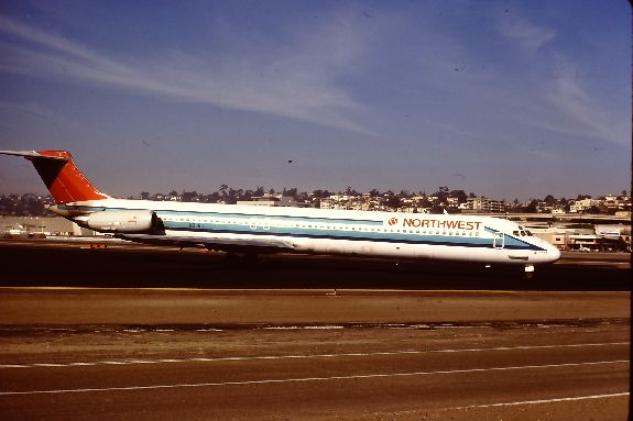 Douglas DC-9-82 N311RC